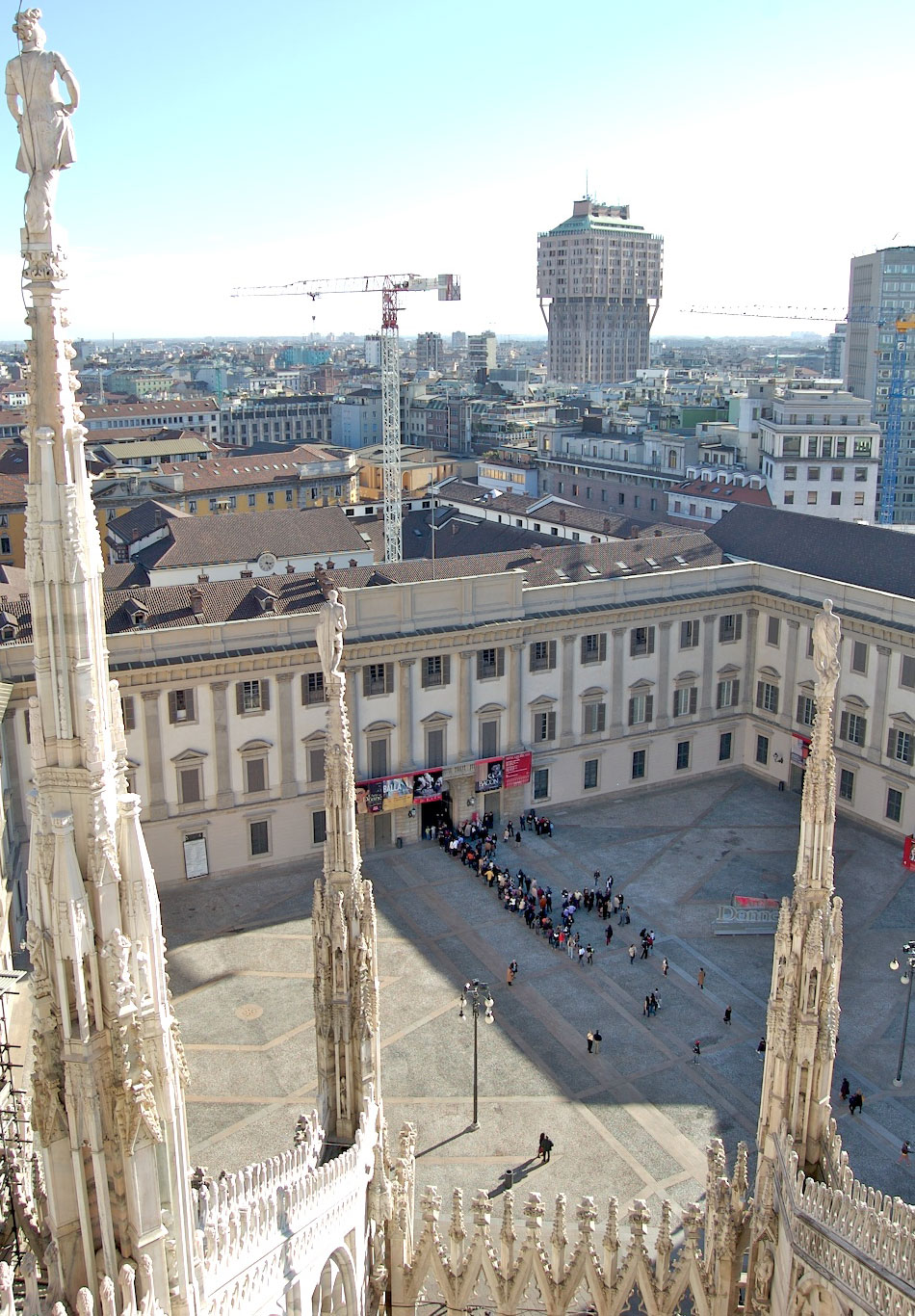 The Royal palace of Milan, Italy, as seen from the roof of the Cathedral.